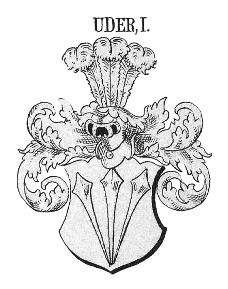 Coat of arms of Uder